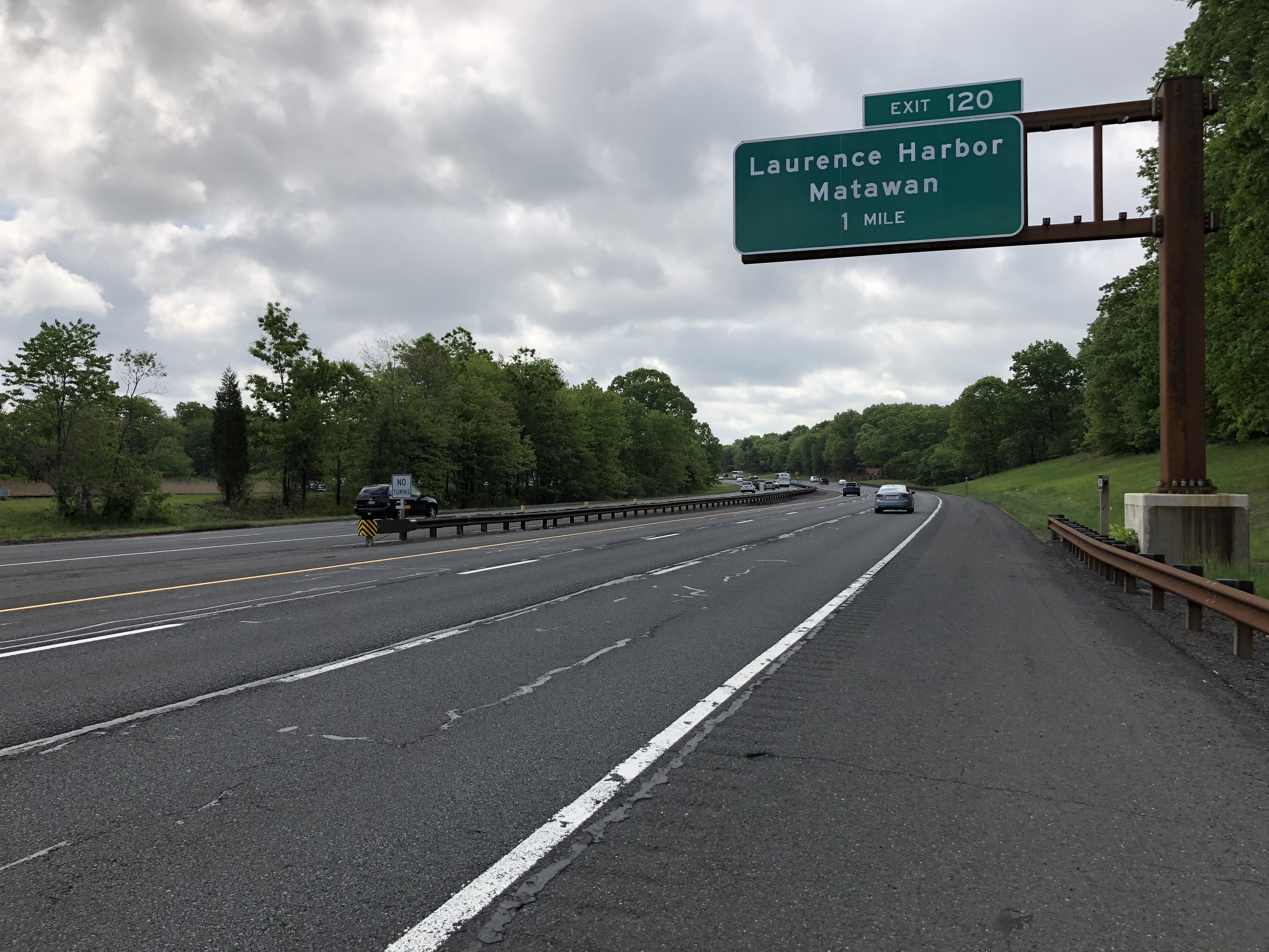 View south along New Jersey State Route 444 (Garden State Parkway) 1 mile north of Exit 120 (Laurence Harbor, Matawan) in Old Bridge Township, Middlesex County, New Jersey